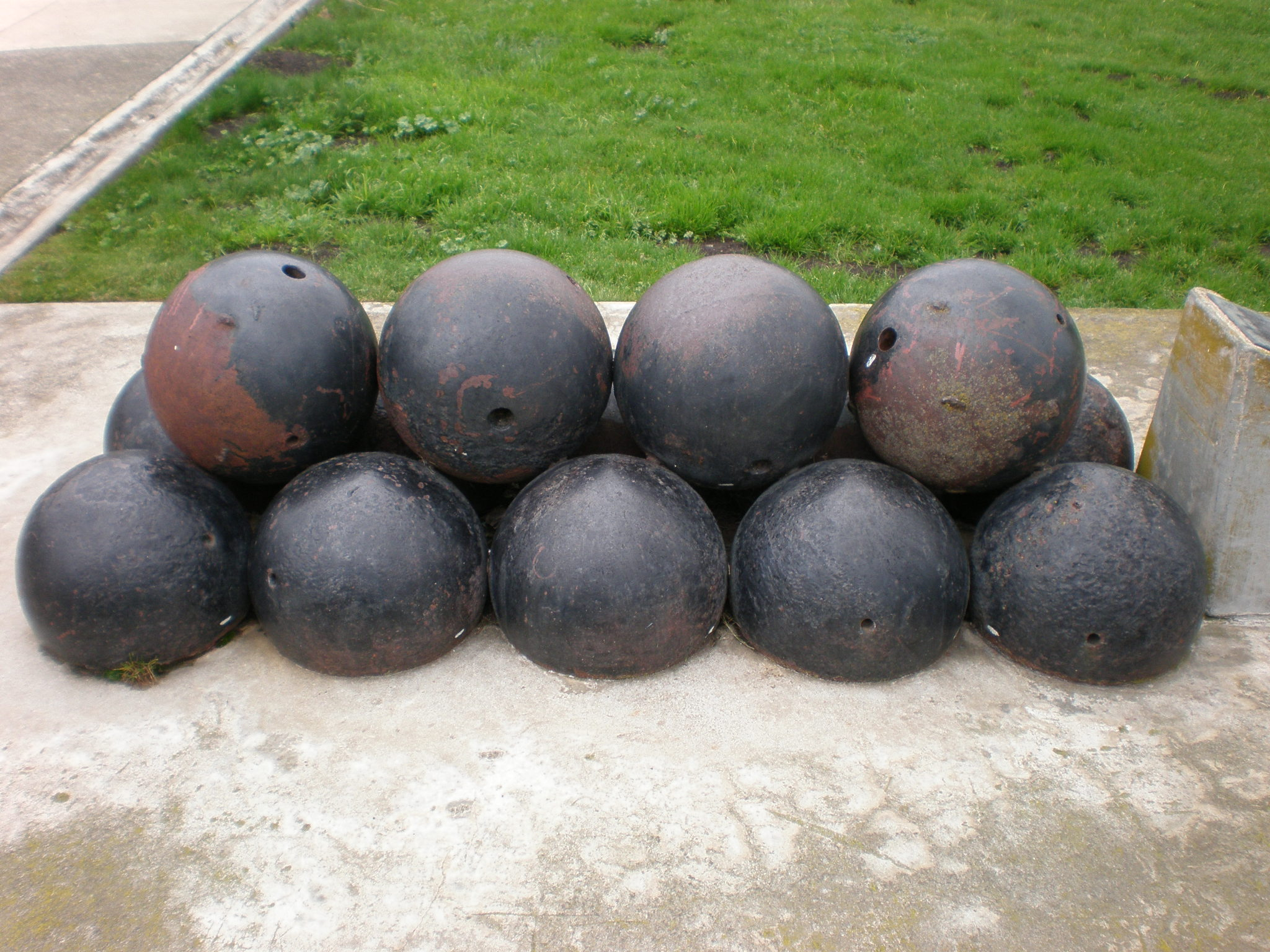 Rodman gun ammunitiion in Pershing Square in the Main Post area of the Presidio of San Francisco.